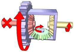 Illustration of a differential gear, made by Wapcaplet in Blender and finished in the GIMP.If the left side gear (red) encounters resistance, the pinion gear (green) rotates about the left side gear, in turn applying extra rotation to the right side gear (yellow).